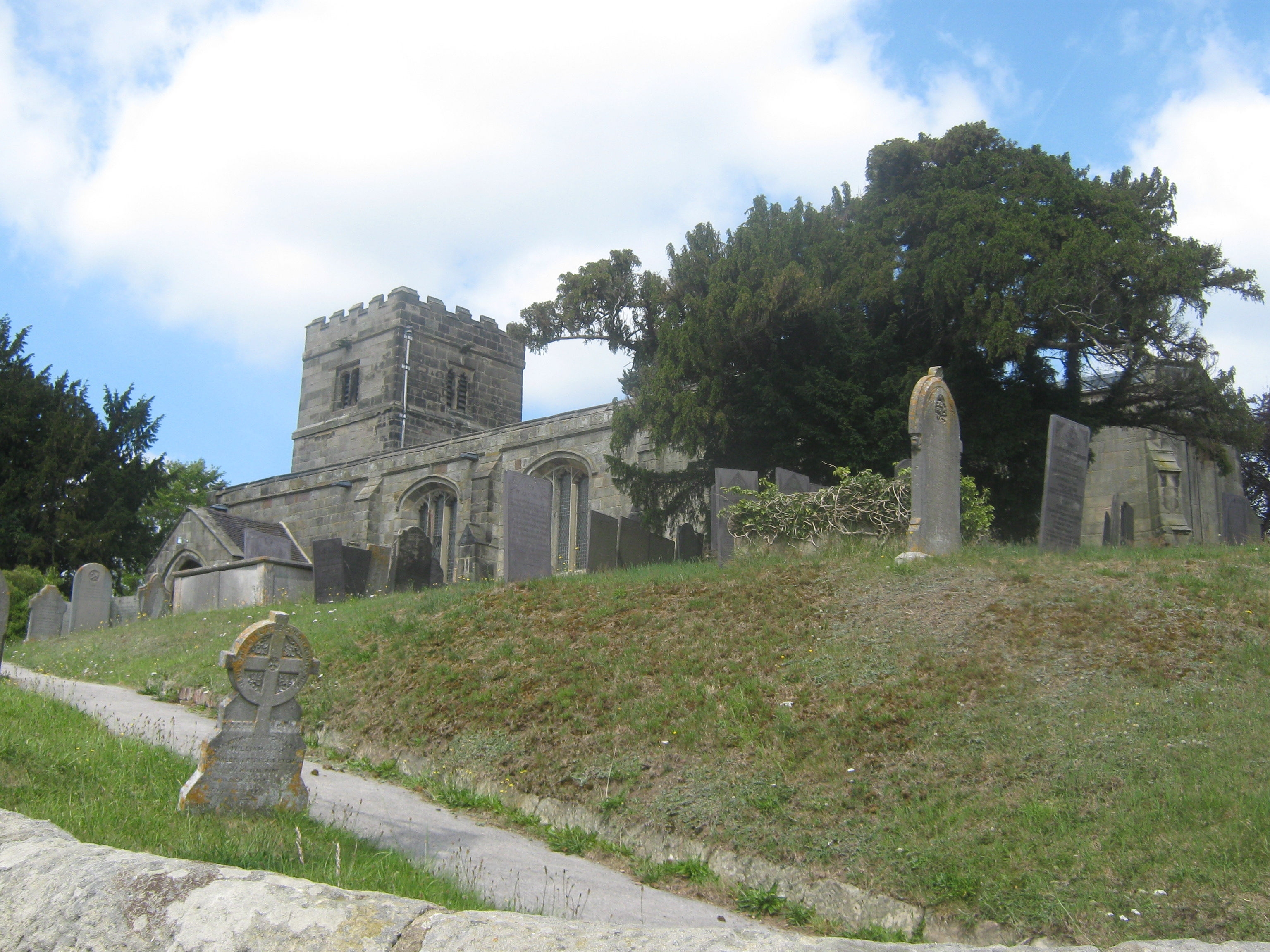 All Saints' parish church, Muggington, Derbyshire, seen from the southeast